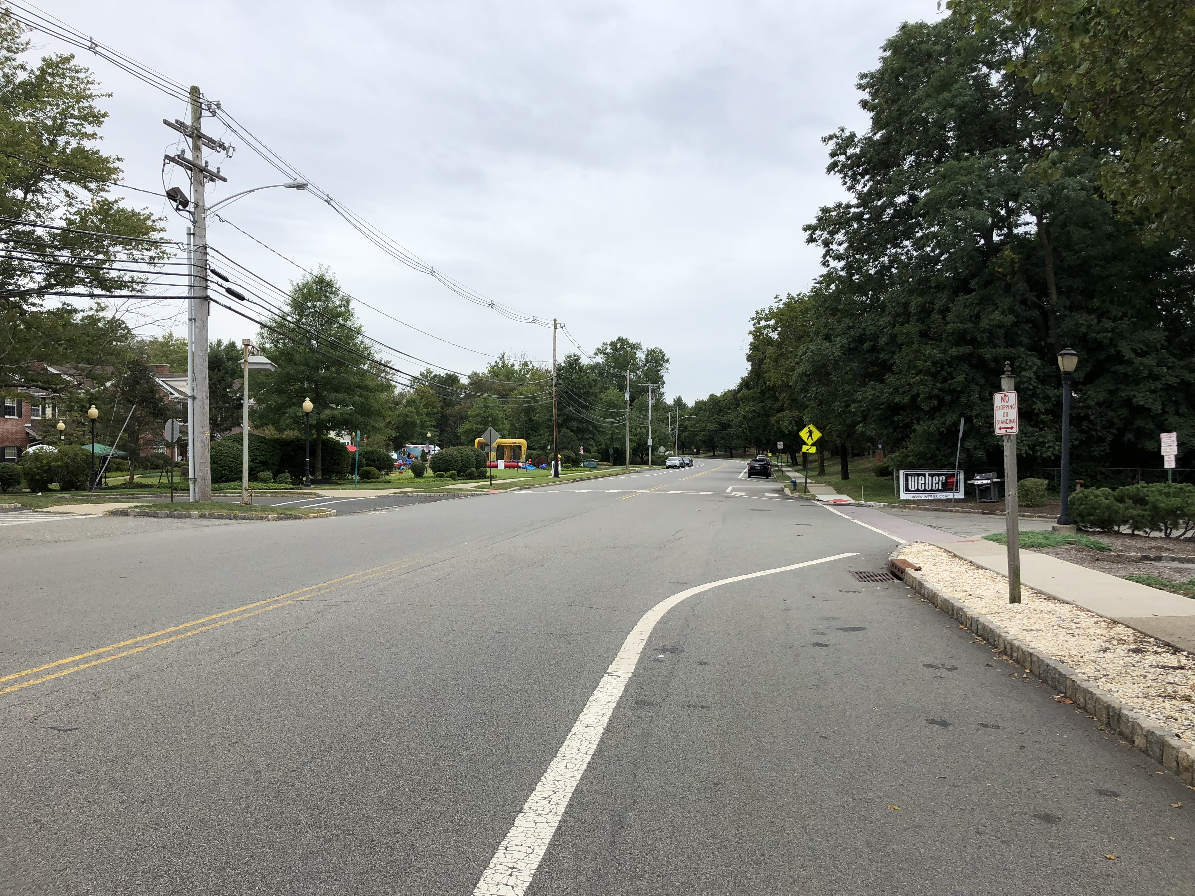 View south along Morris County Route 647 (Southern Boulevard) just south of Morris County Route 646 (Shunpike Road) in Chatham Township, Morris County, New Jersey